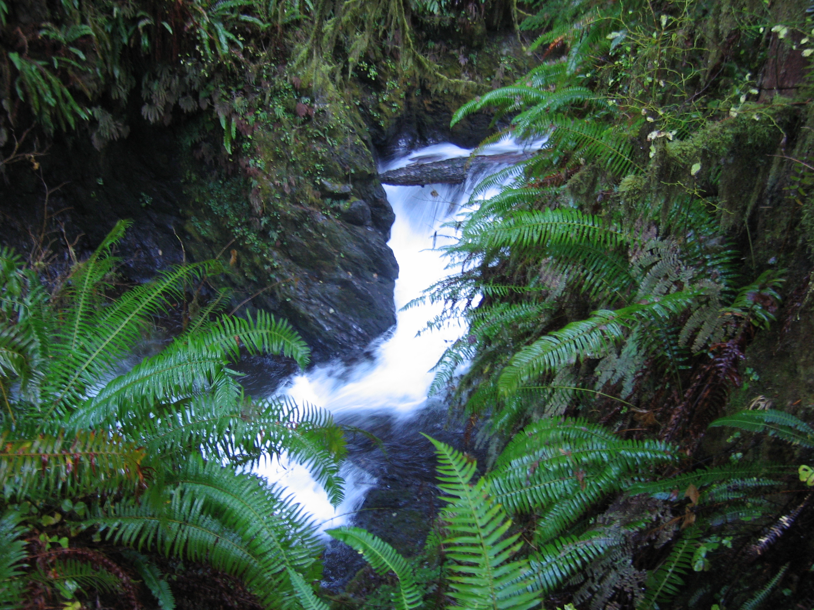 Small Waterfall near Lake Quinault, with Polystichum munitum ferns